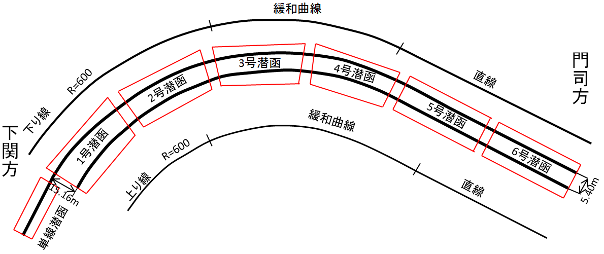 Layout of pneumatic caisson at Moji side of Kammon railway tunnel